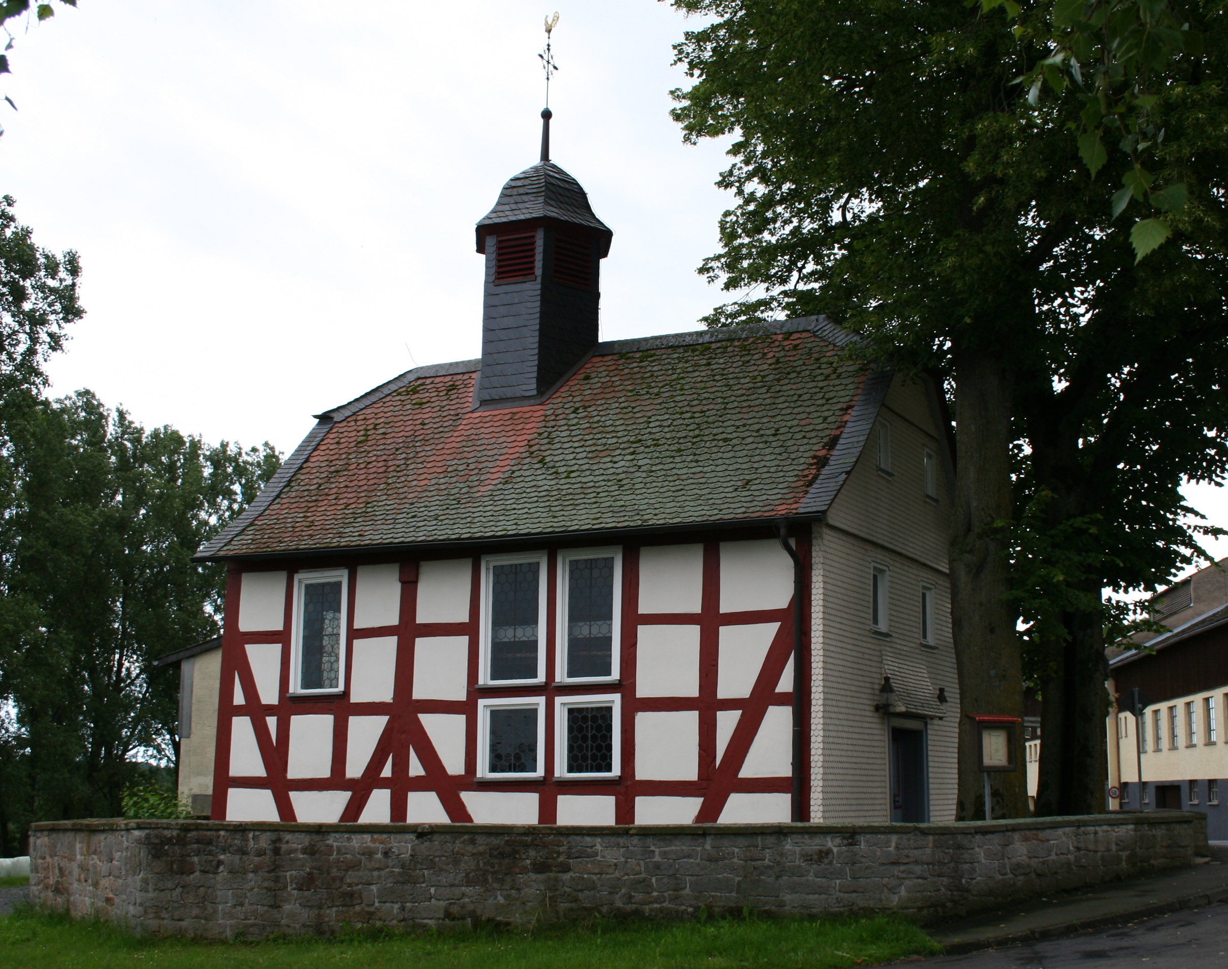 Church, Eisenbacher strasse 1, Rudlos, Lauterbach, Hesse, Germany